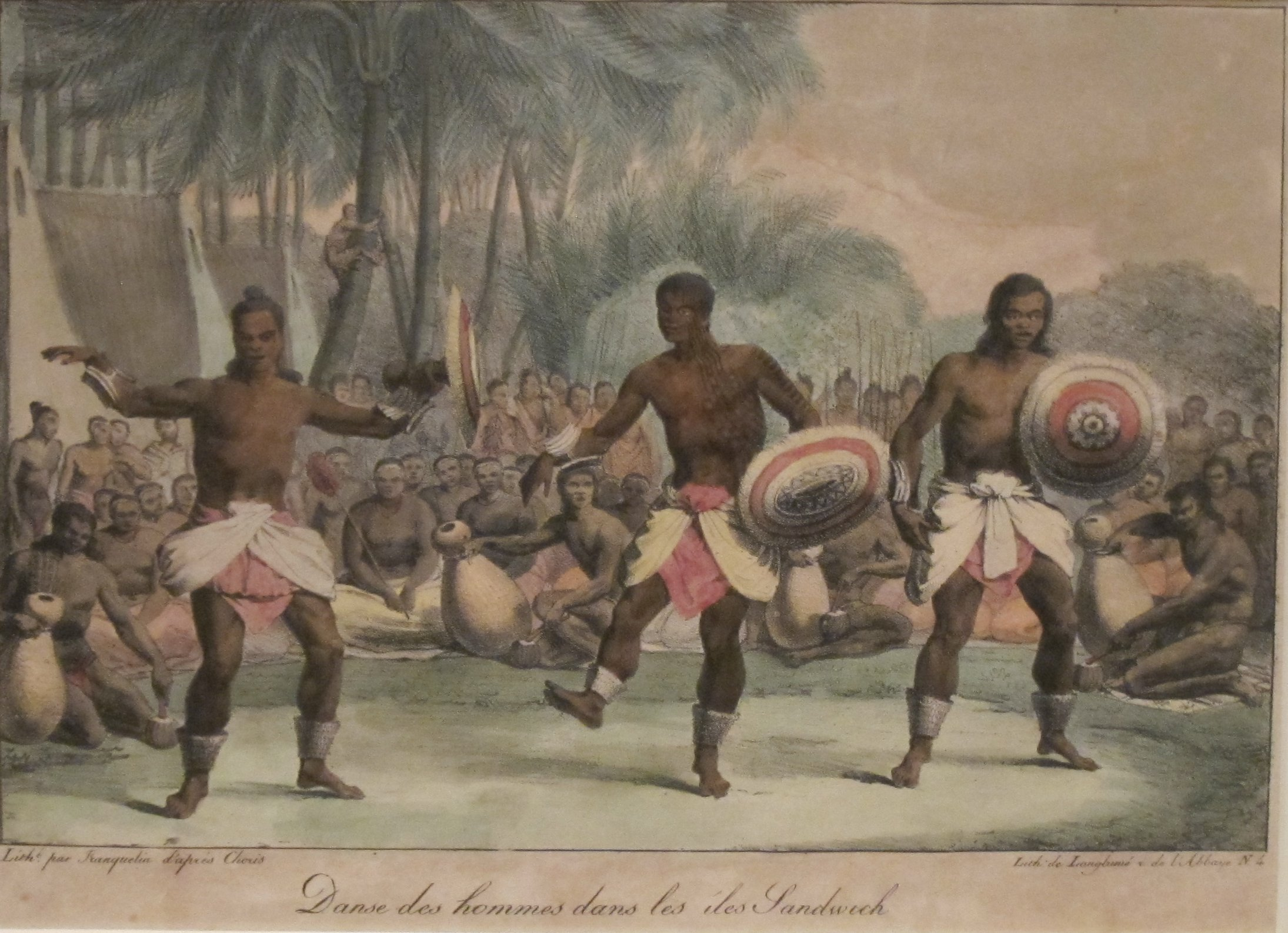 Men of the Sandwich Islands Dancing, lithograph by Jean-Augustin Franquelin after painting by Louis Choris, c. 1816, Honolulu Museum of Art